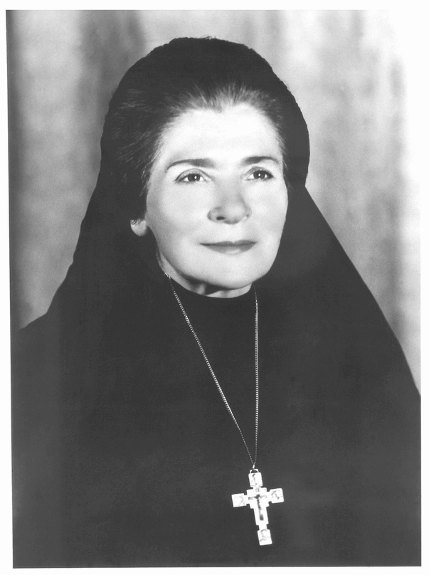 M. Eugenia E. Ravasio as a superior general of the Congregation of Our Lady of the Apostles (before 1947)